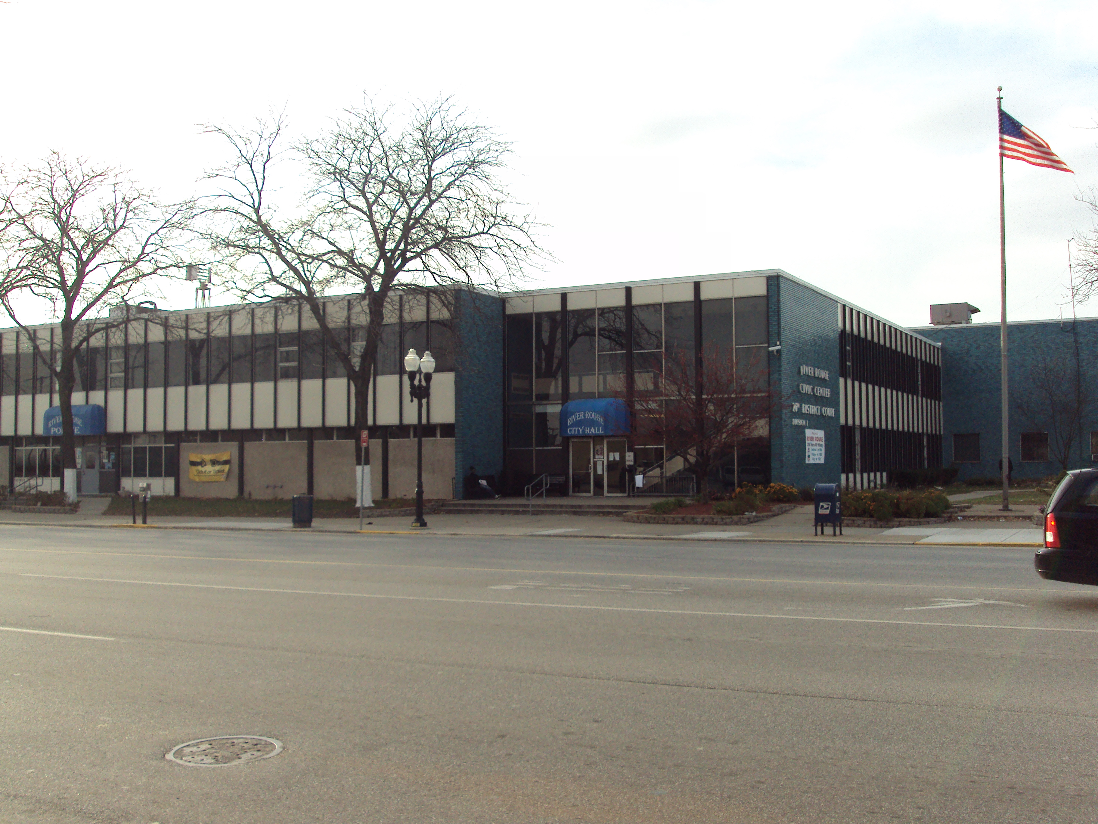 River Rouge City Hall (Michigan)